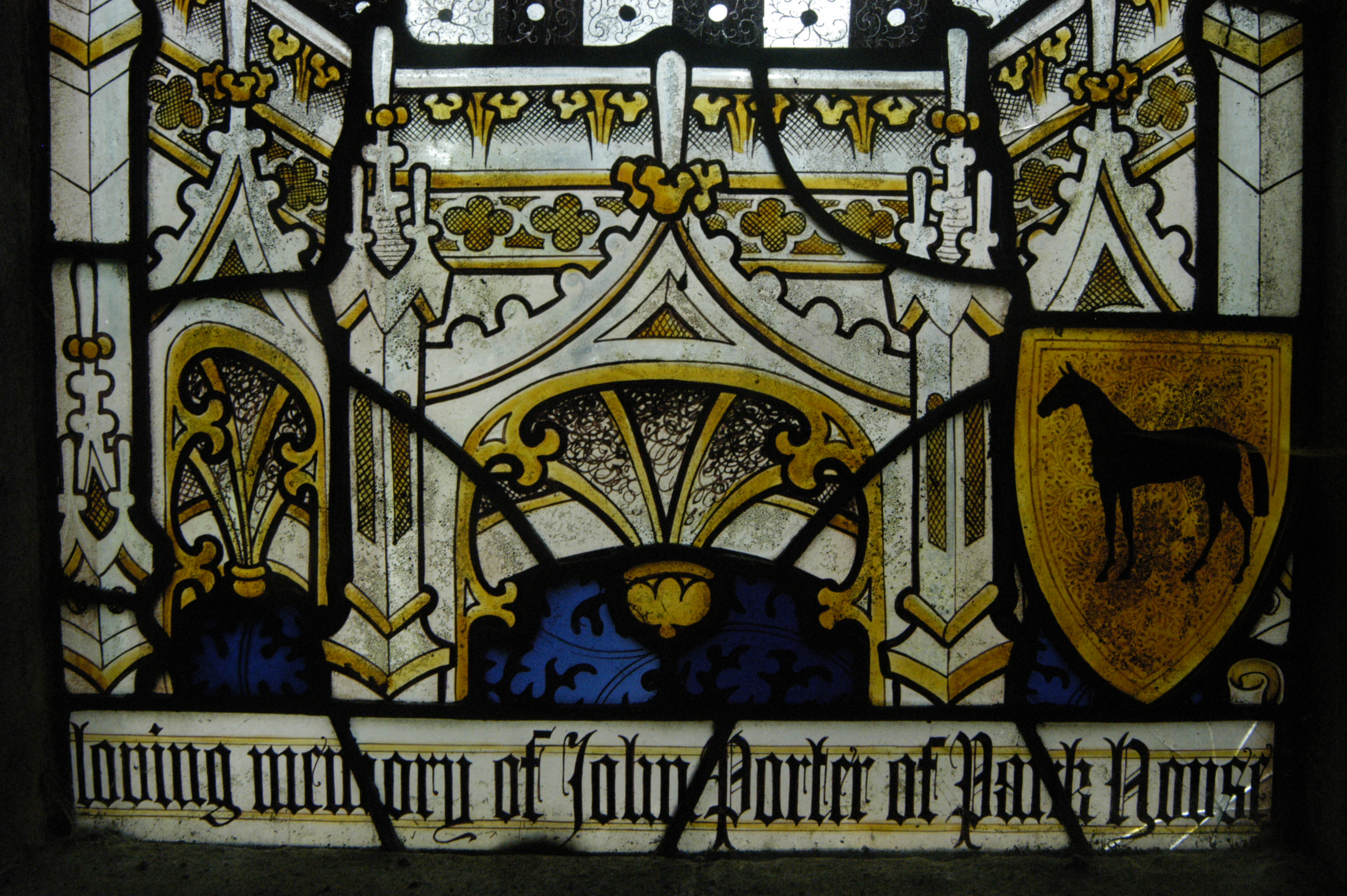 Photo (by me, R. de SalisRodolph (talk) 23:59, 3 September 2014 (UTC)) of the lowest part of a stained glass window in memory of John Porter (died 1922), Kingsclere.